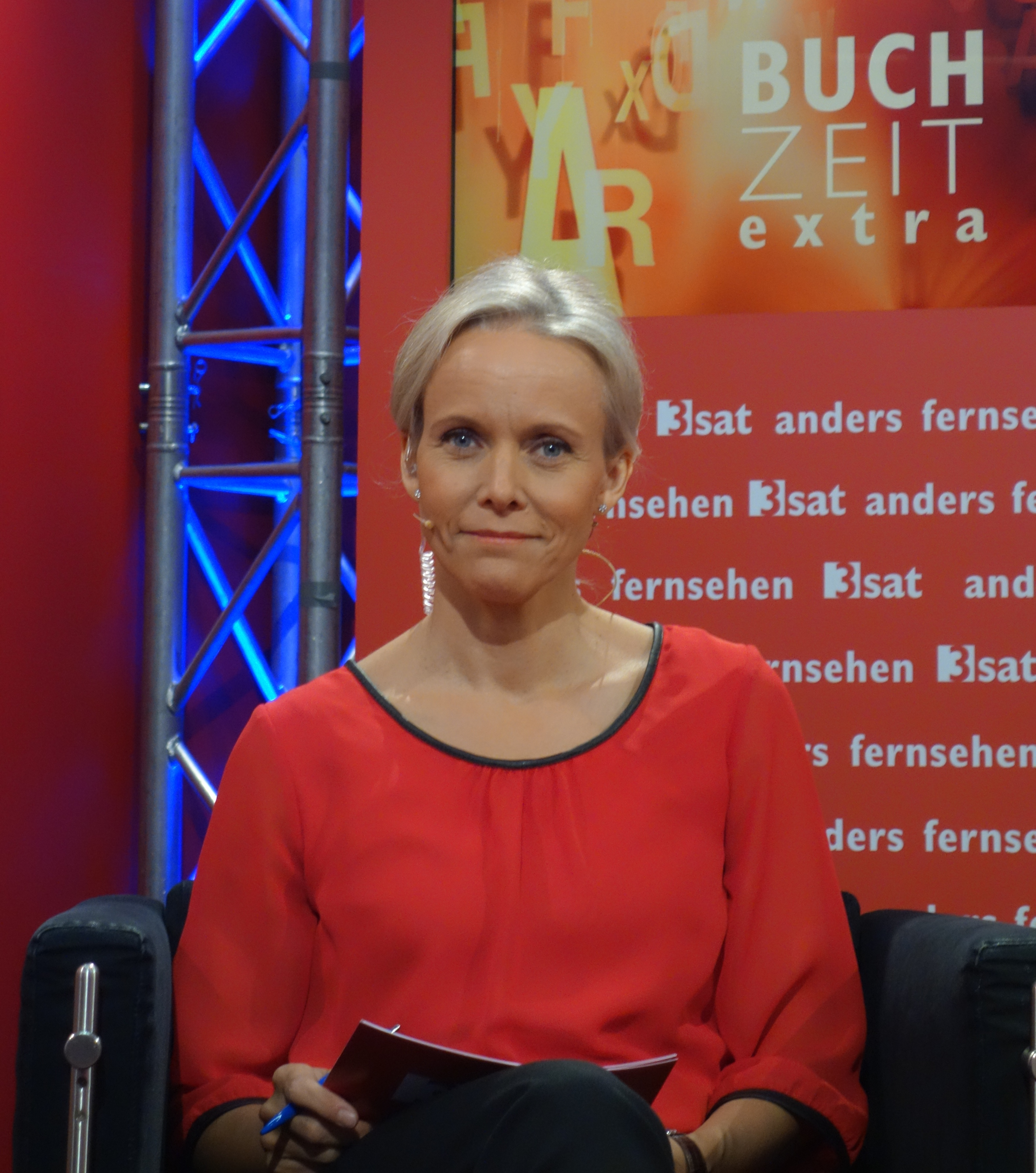 Andrea Meier auf der Frankfurter Buchmesse 2016 als Moderatorin der ZDF-Sendung "Das Blaues Sofa".